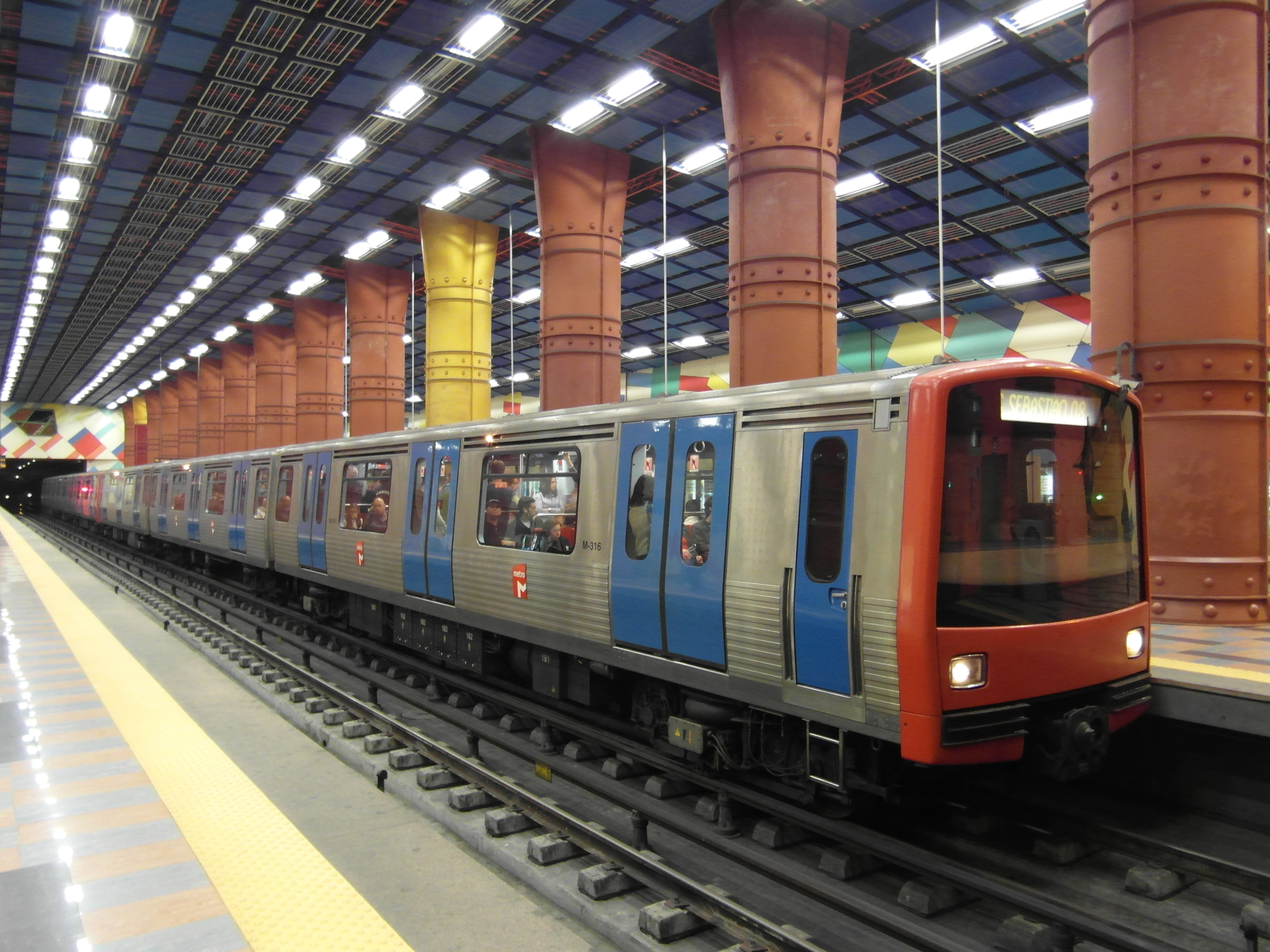 Olaias underground station, Lisboa, Portugal